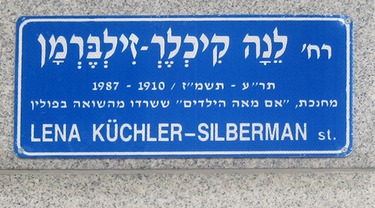 Lena Kuchler-Silberman Street Sign